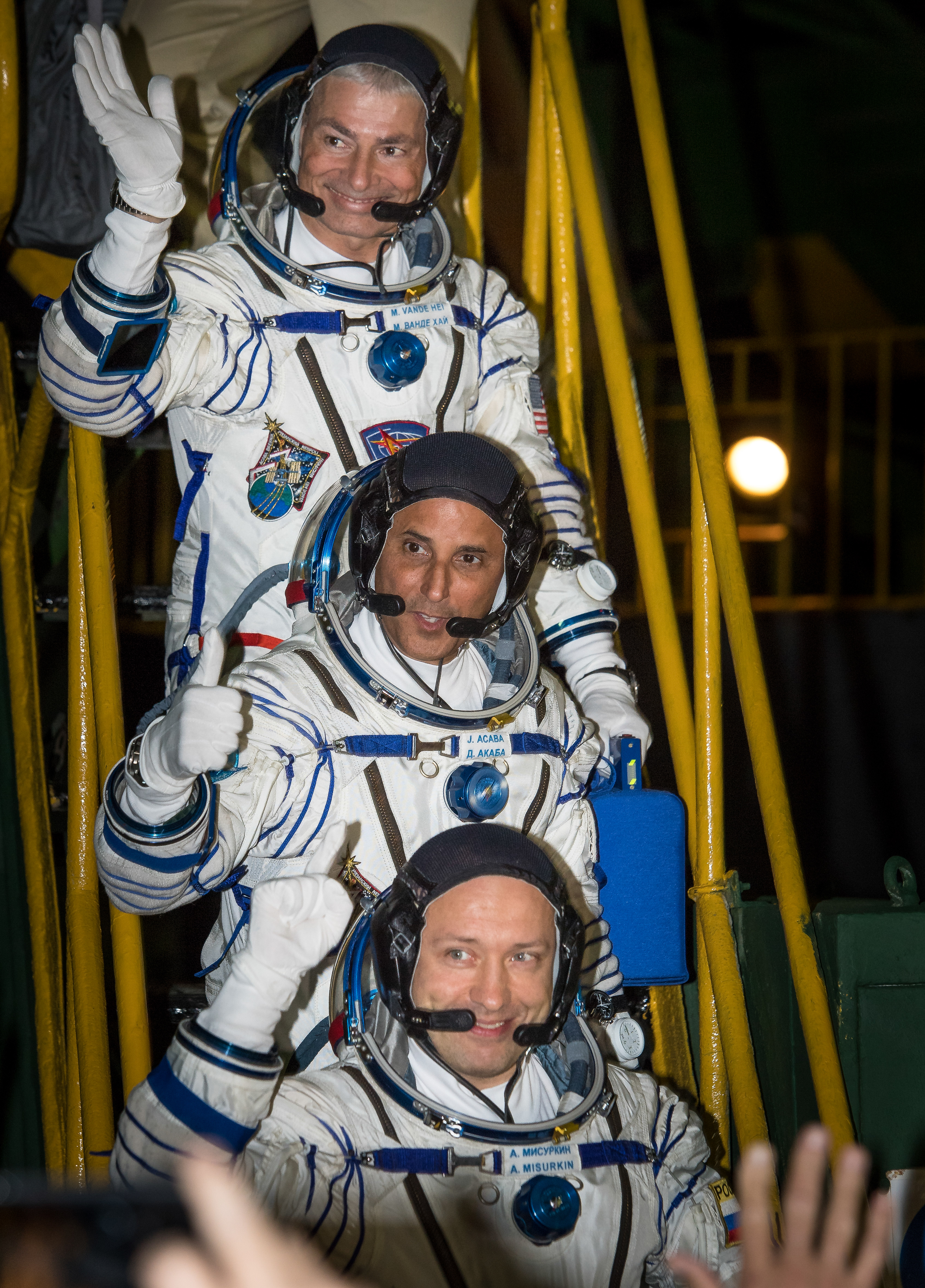 Expedition 53 flight engineer Mark Vande Hei of NASA, top, flight engineer Joe Acaba of NASA, and Soyuz Commander Alexander Misurkin of Roscosmos, bottom, wave farewell before boarding their Soyuz MS-06 spacecraft for launch from the Baikonur Cosmodrome in Kazakhstan, Wednesday, Sept. 13, 2017, (Kazakh time) (Sept. 12, U.S. time). Acaba, Misurkin, and Vande Hei will spend approximately five and half months on the International Space Station.